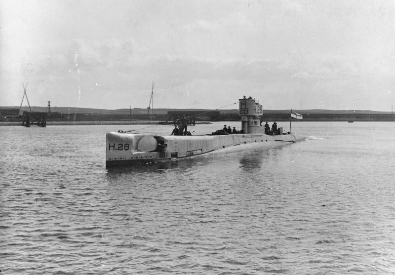 Photograph of British submarine H 28. IWM caption : "HMSM H 28. Underway coastal waters"